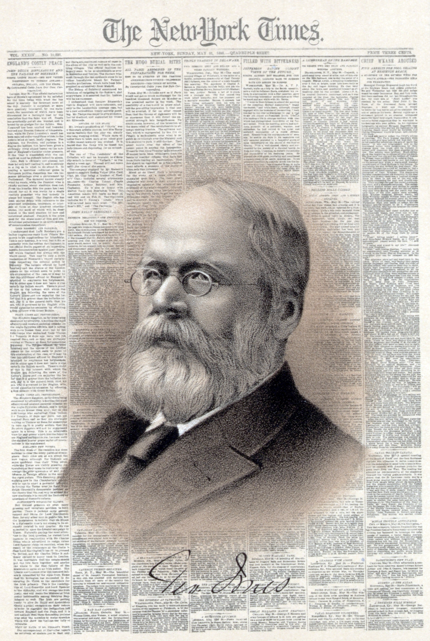 American newspaper publisher George Jones (1811-1891)